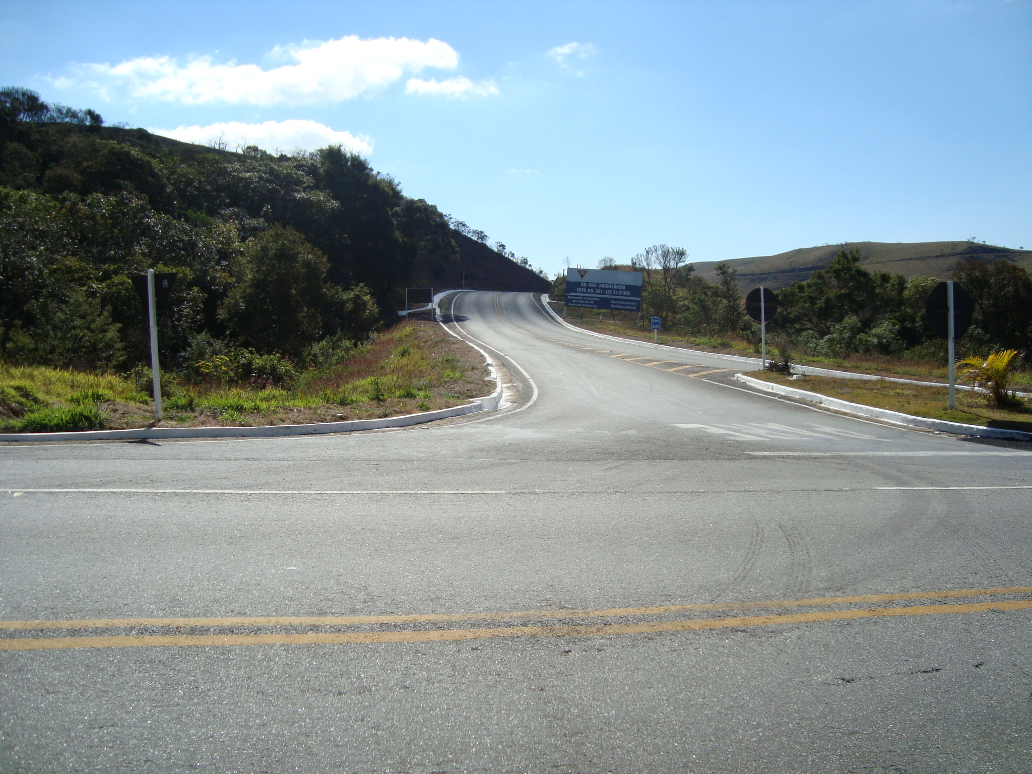 Roads BR-494 and BR-267 in Arantina, Minas Gerais, Brazil